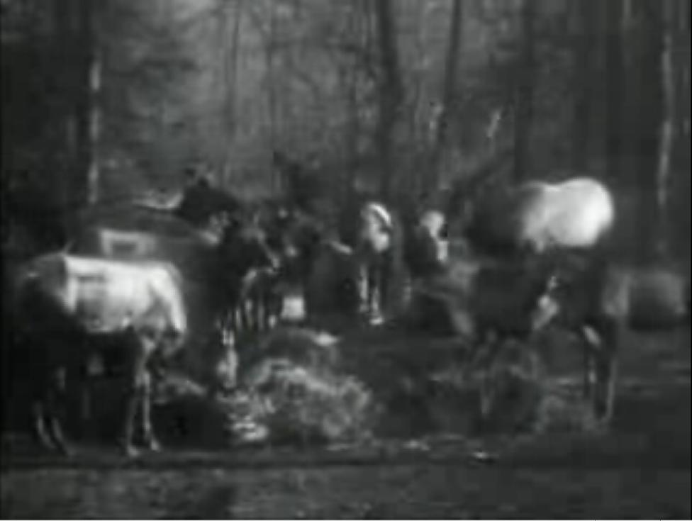 Santa's deers are fed with hay, in the 1905 film "The Night Before Christmas"